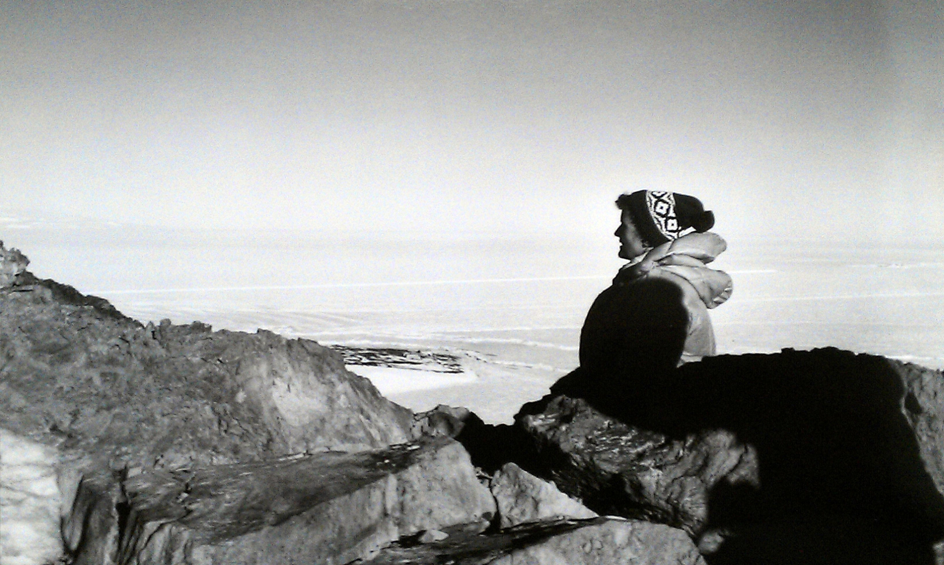 Ursula B. Marvin in Antarctica, 1978-1979, Accession 13-060, Smithsonian Institution Archives.